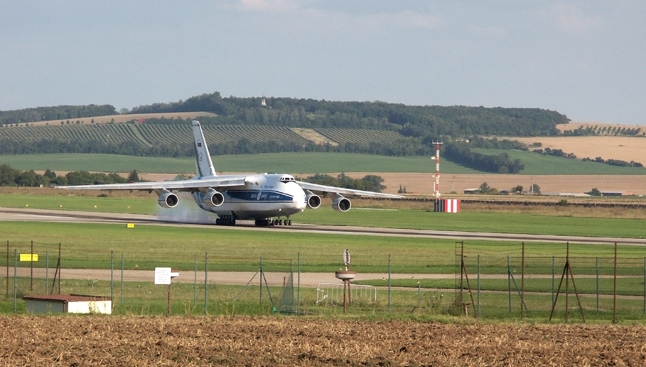 Antonov An-124, RA-82047, Volga Dnepr, landing at RWY28, Brno-Tuřany Airport, Czech Republic